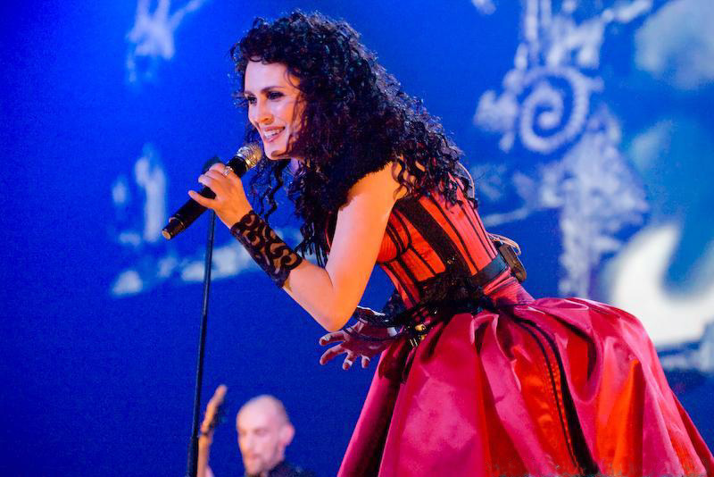 Sharon den Adel from Within Temptation at Rotterdam (Black Symphony)